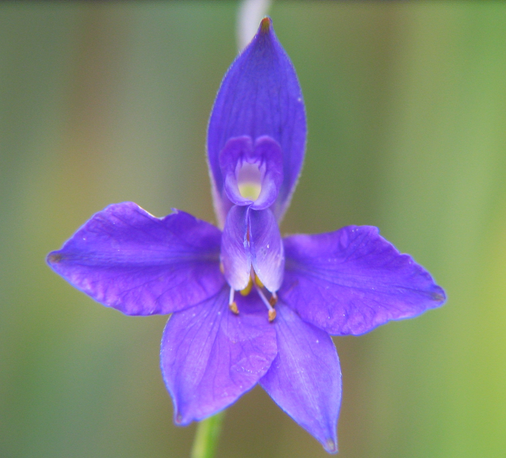 Consolida regalis